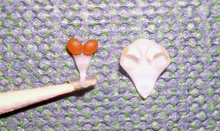 Phalaenopsis ochid's stipe with Pollinia and Rostellum and its anther cap. July 2007 ycc2106 15:43, 4 July 2007 (UTC)